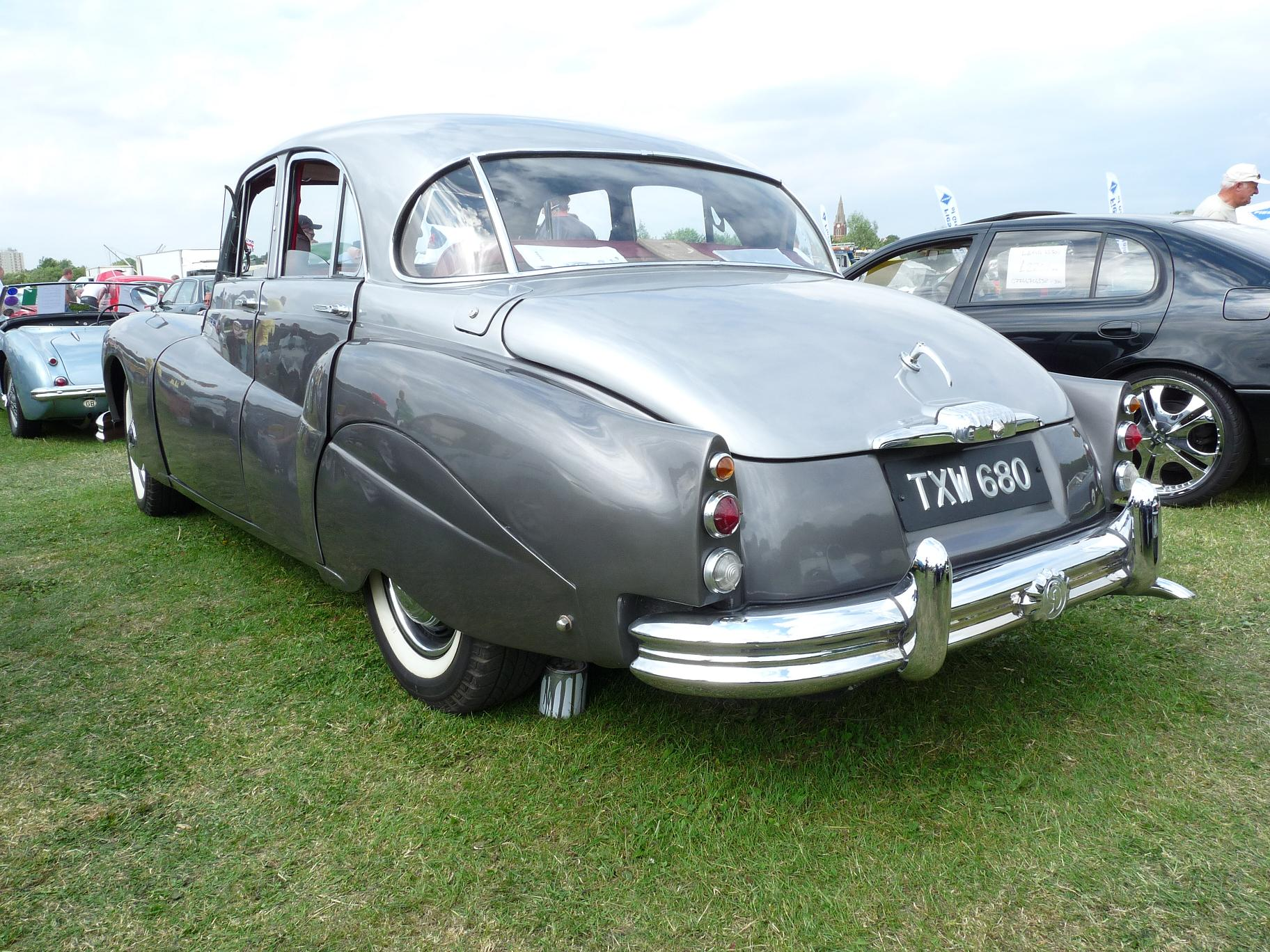 Daimler Sportsman 3.5-litre at Bromley Pageant of Motoring June 2010 London U.K. (DVLA) 3468cc first registered 15 May 1957